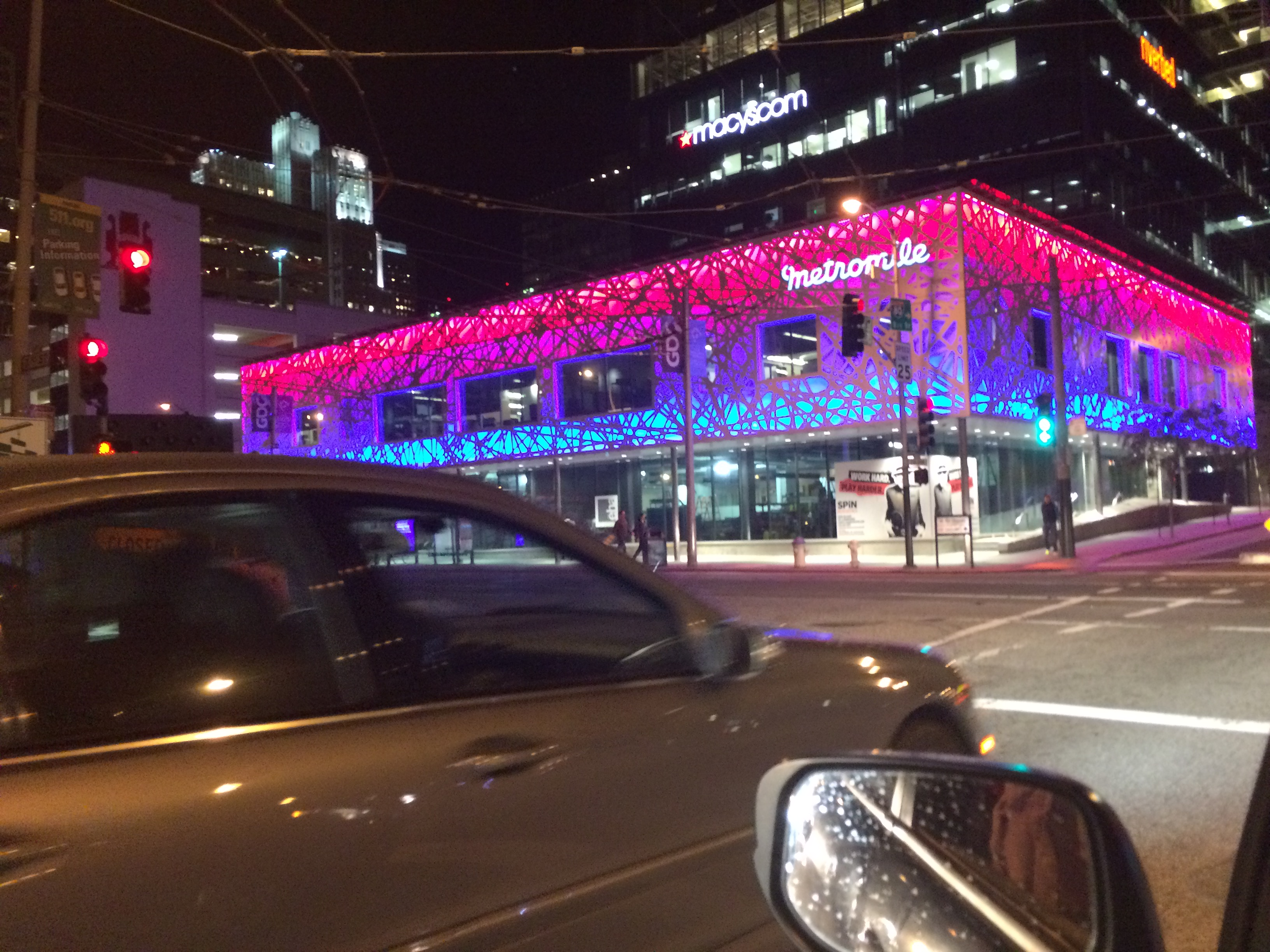 Metromile car insurance building, san francisco 2016